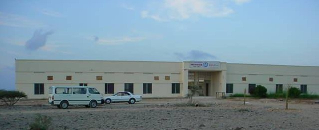 Entrance to East Africa University in suburban Bosaso, Somalia.